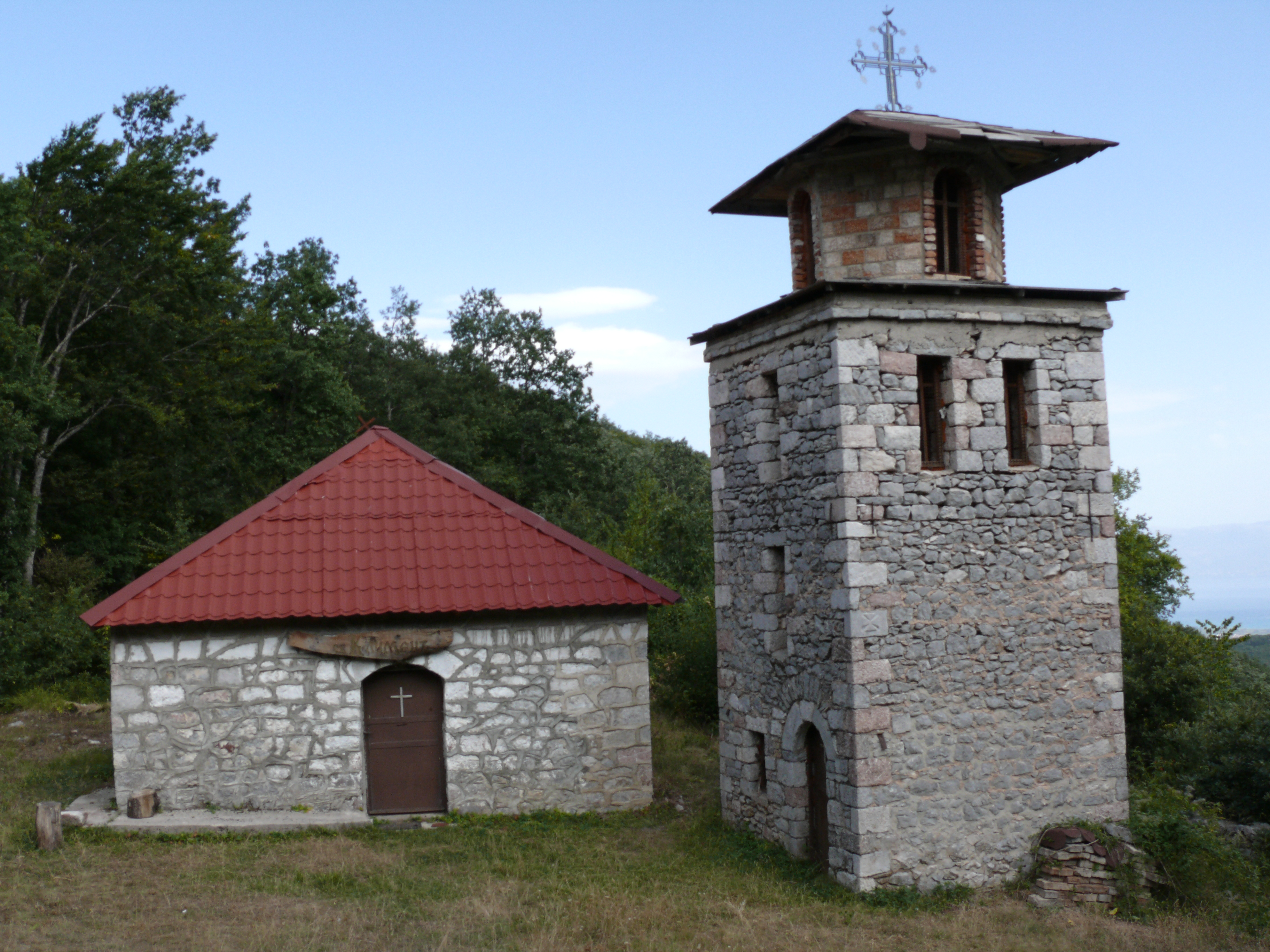 Манастир Св. Климент(II век), Горна Белица